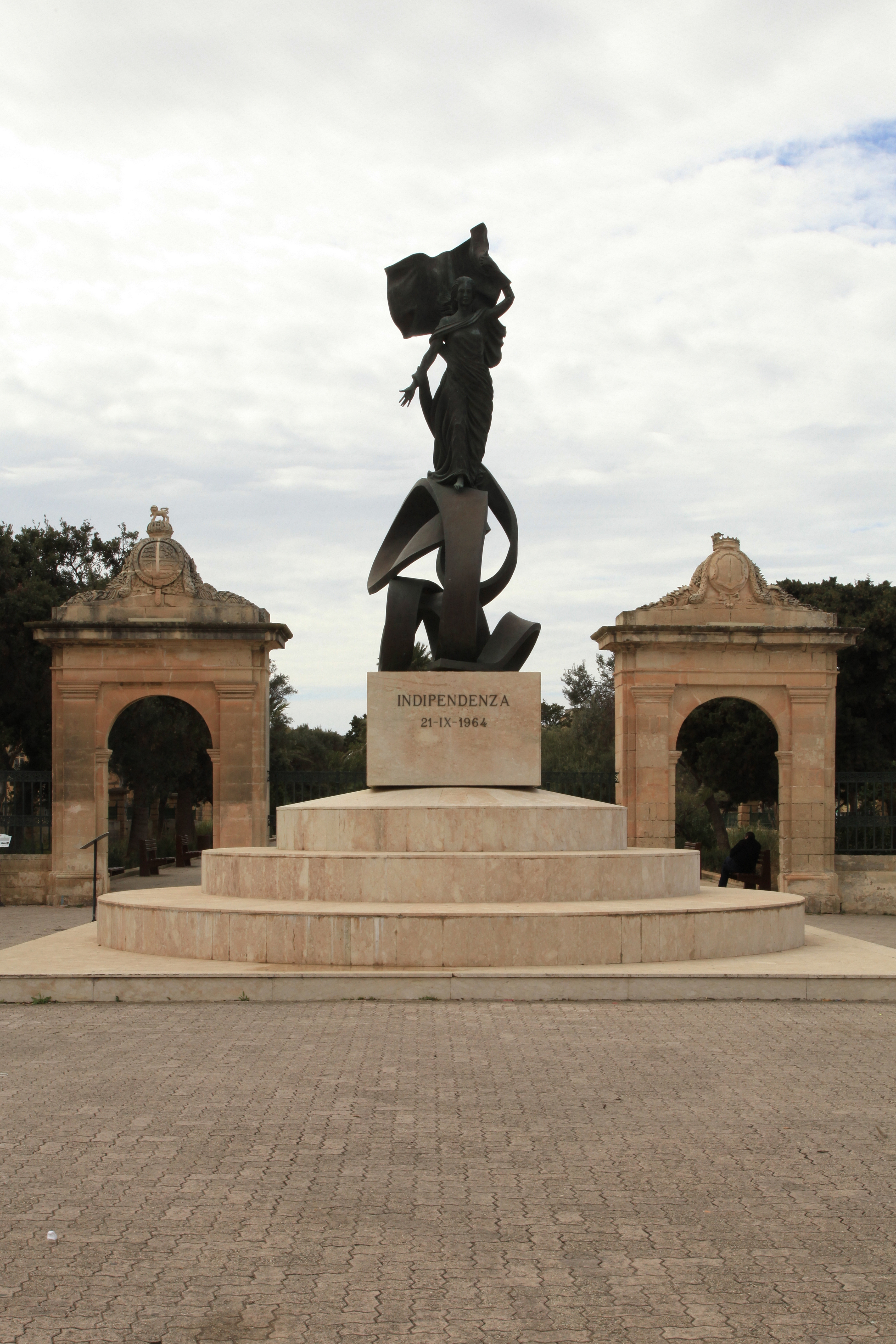 Independence Monument in front of The Mall at Triq Sarria in Floriana, Malta